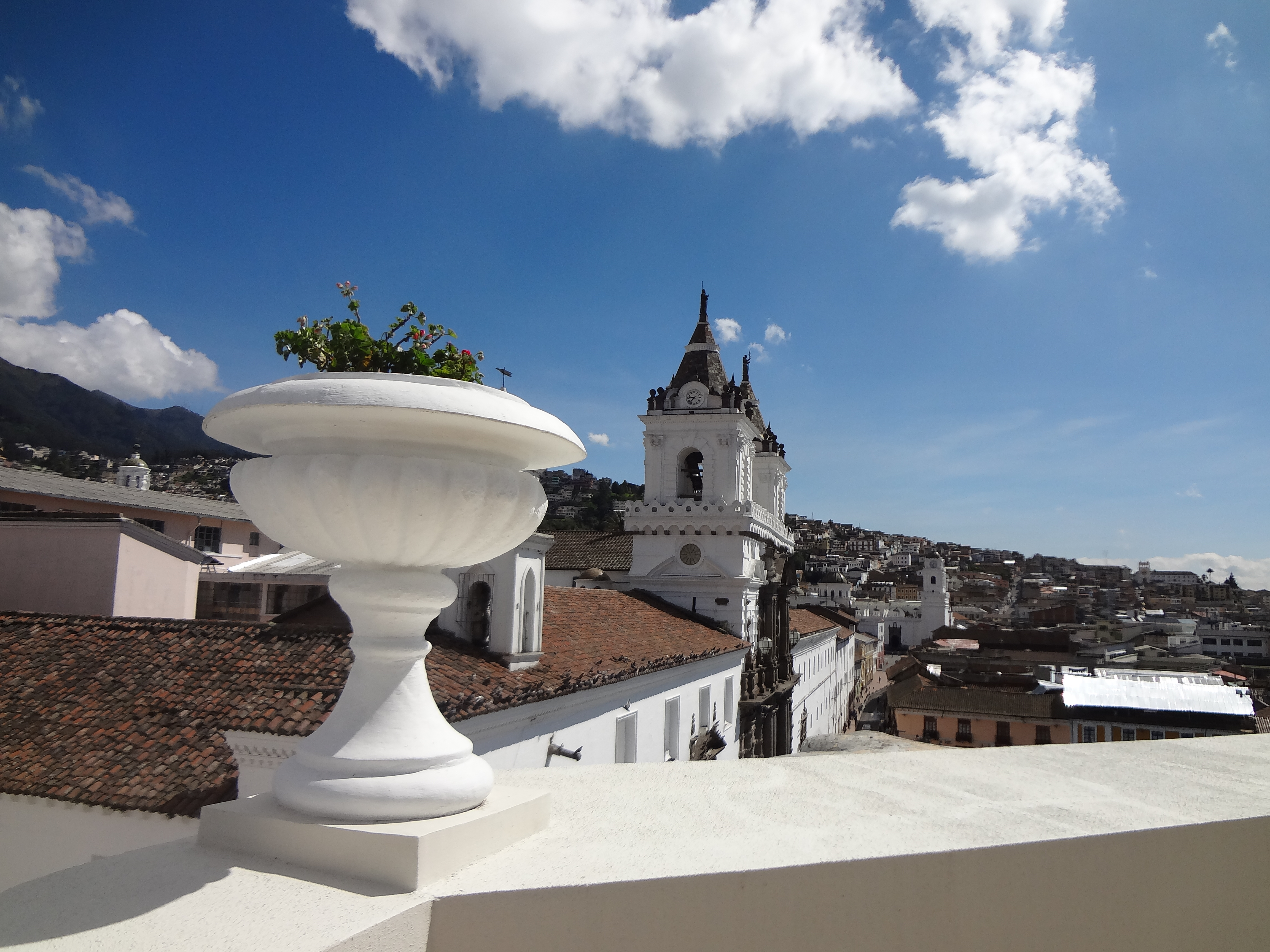 Palacio Gangotena, Quito (roof deck) Interior of the Palacio Gangotena, Quito El Centro Histórico de Quito Casa Gangotena Hotel Boutique en Quito, es una mansión restaurada y ubicada en el centro histórico de la ciudad. Historic Center of Quito Photography by David Adam Kess